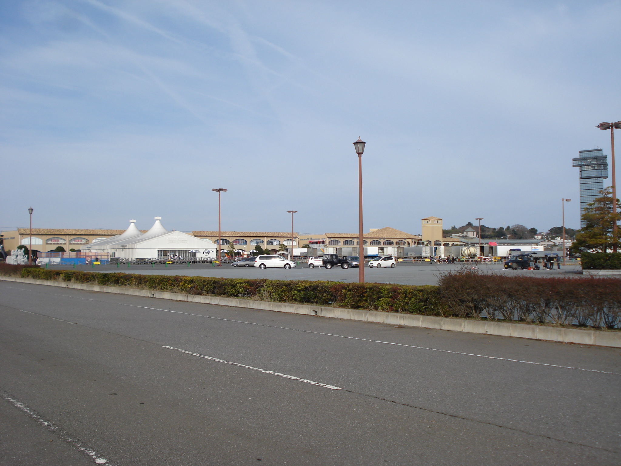 Resort Outlets Oarai in Oarai Town, Ibaraki Prefecture, Japan